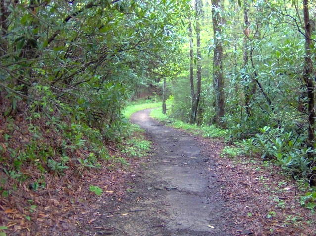 The Bote Mountain Trail in the Great Smoky Mountains National Park in southern Blount County, Tennessee, United States.